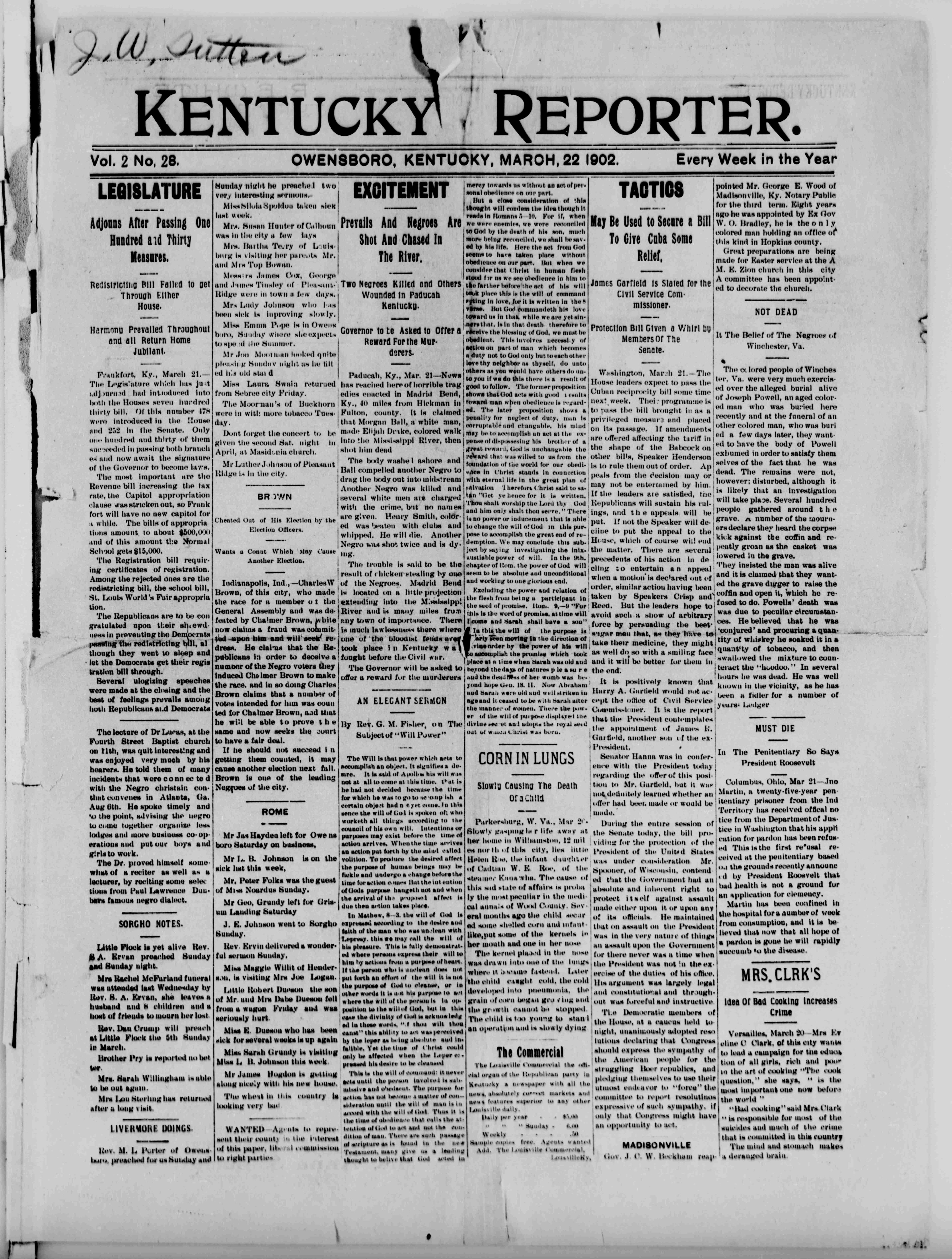 Front page of the March 22, 1902 edition of the Kentucky Reporter, a long-running African American newspaper based in Owensboro, Kentucky, which later moved to Louisville, Kentucky. This is the only surviving issue from the Reporters Owensboro period. Top stories include the close of the 1902 session of the Kentucky State Legislature and the murder of Elijah Drake at Madrid Bend, Kentucky.